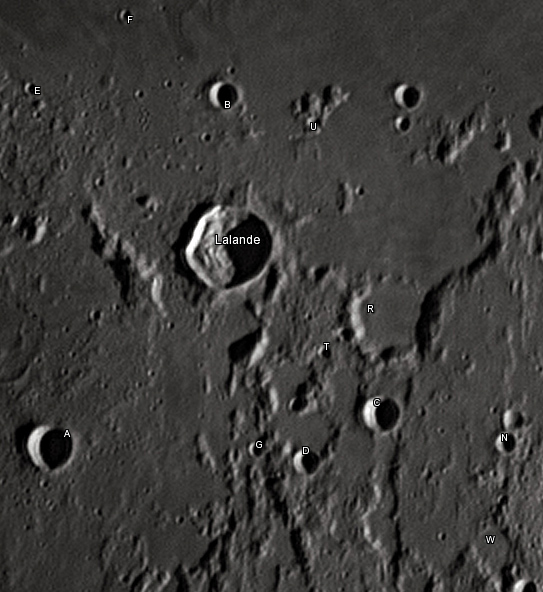 Lalande lunar crater as seen from Earth with satellite craters labeled